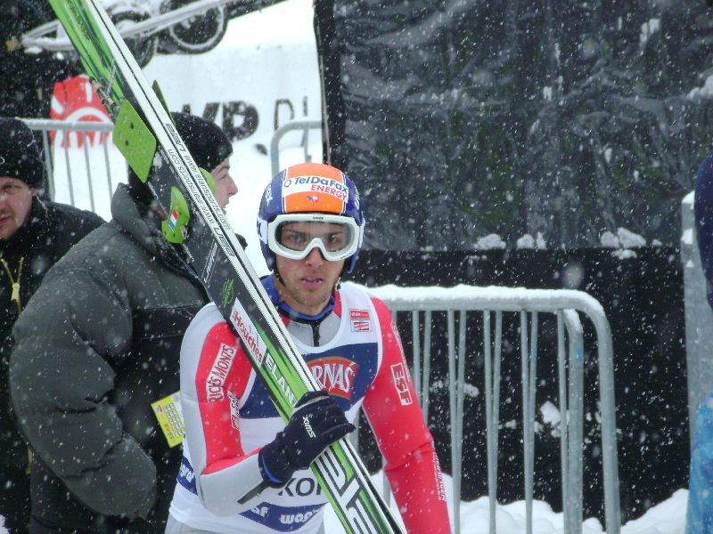 ski jumper Vincent Descombes Sevoie from France during the World Cup in Zakopane on 27-1-2008